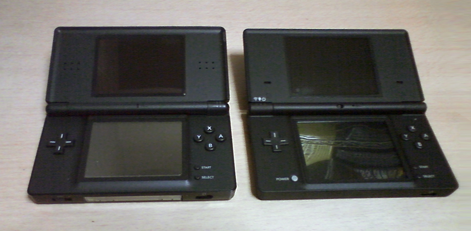 Nintendo DS Lite (left) and DSi (right)